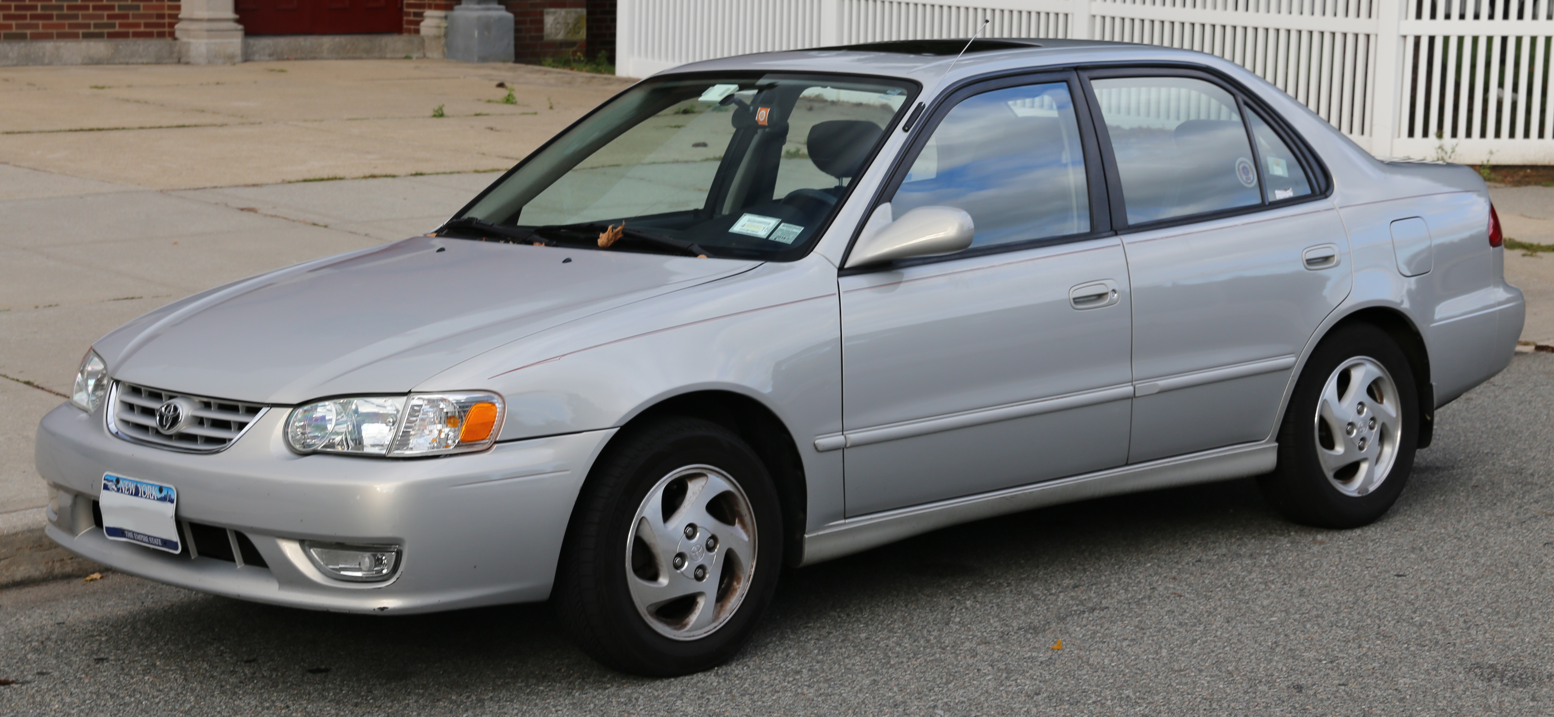 2001 Toyota Corolla S. Built in Cambridge, Ontario, this mildly sporting model has the 1.8 litre VVT 1ZZ-FE engine with 125hp.